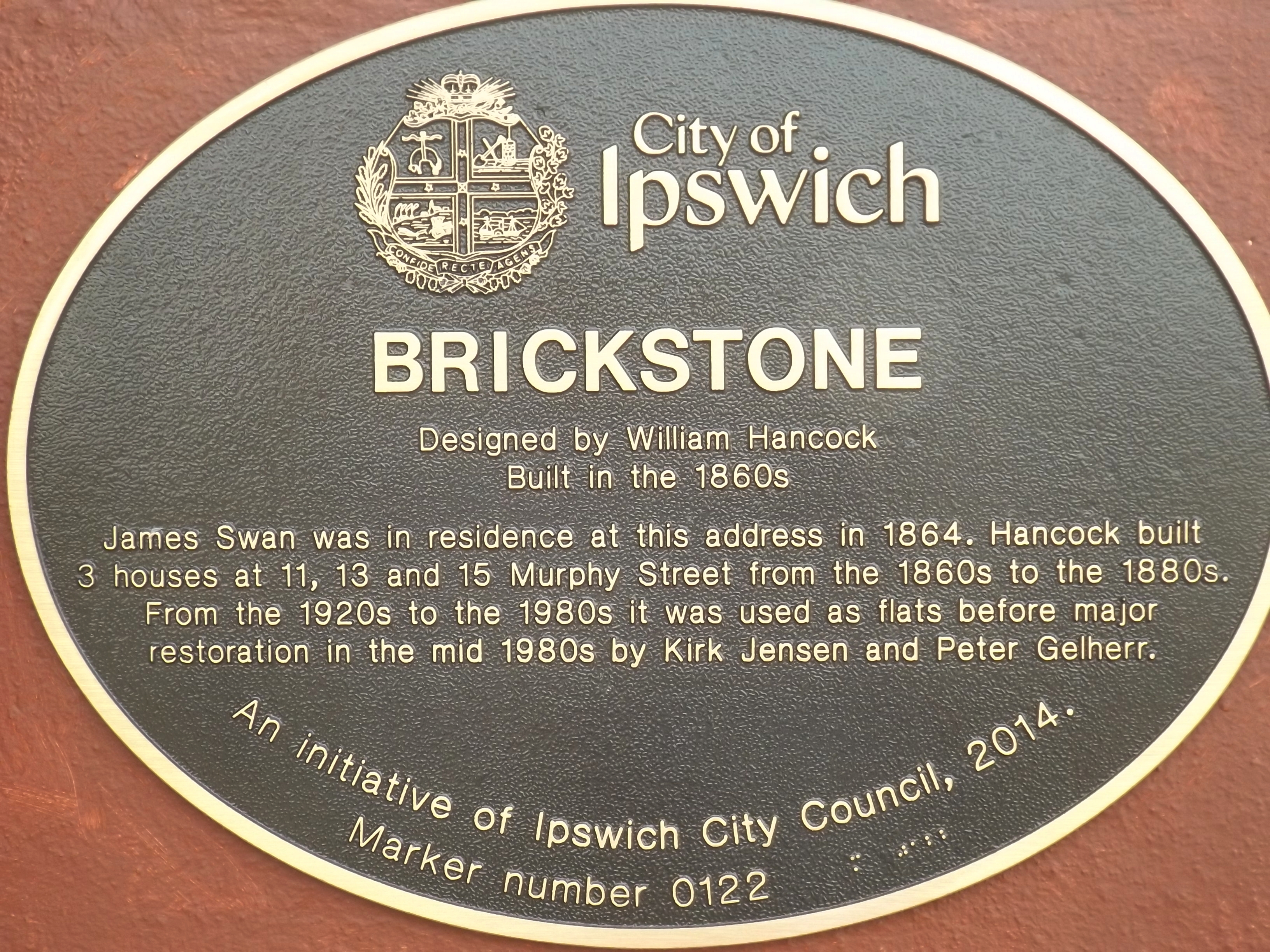 Photo of plaque at Brickstone residence at Ipswich, Queensland, Australia.